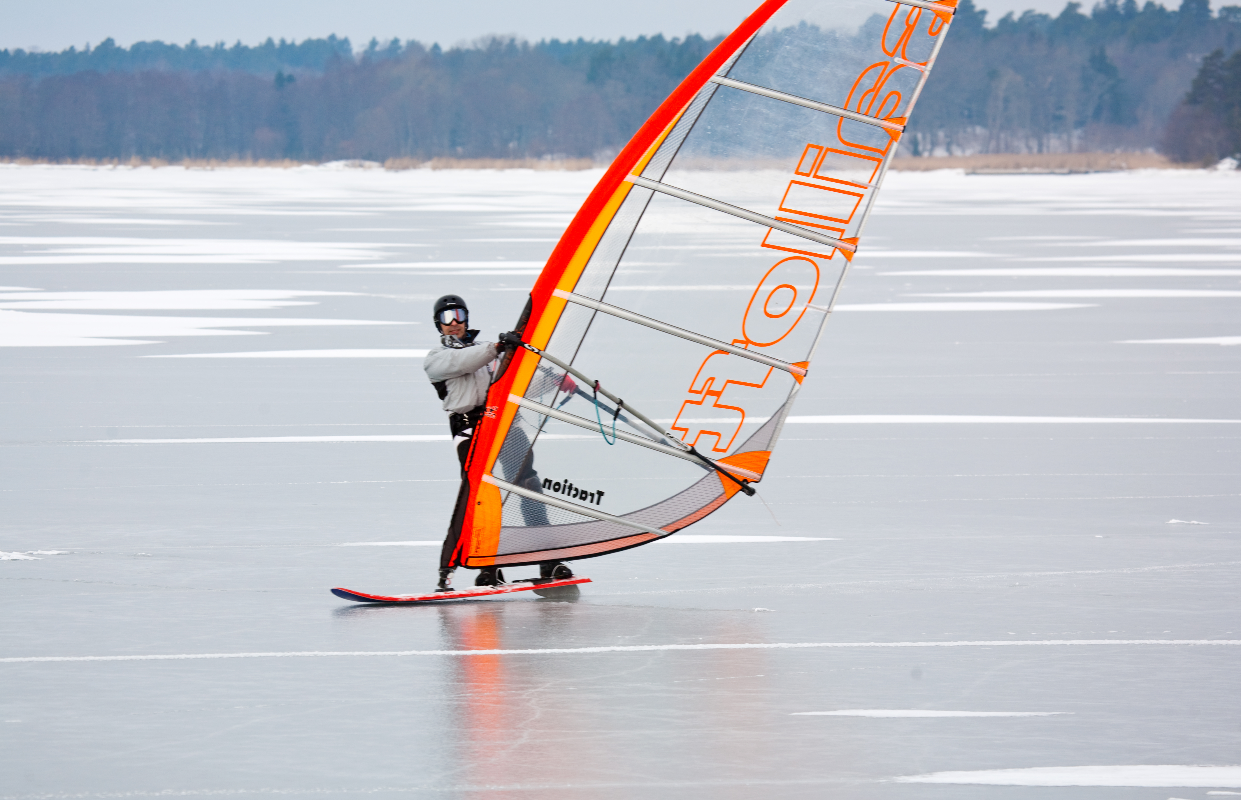 Winter in the Baltic Sea